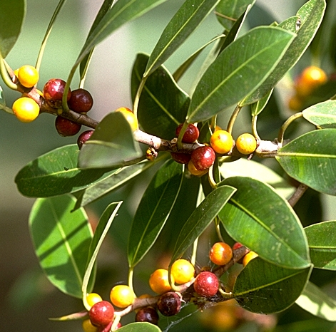 Small-leaved fig (Ficus obliqua, Moraceae). The glossy green leaves are elliptic. The round yellow fruits turn orange-red and reach a diameter of 6 to 10 mm.